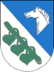 Coat of Arms of Gruhno